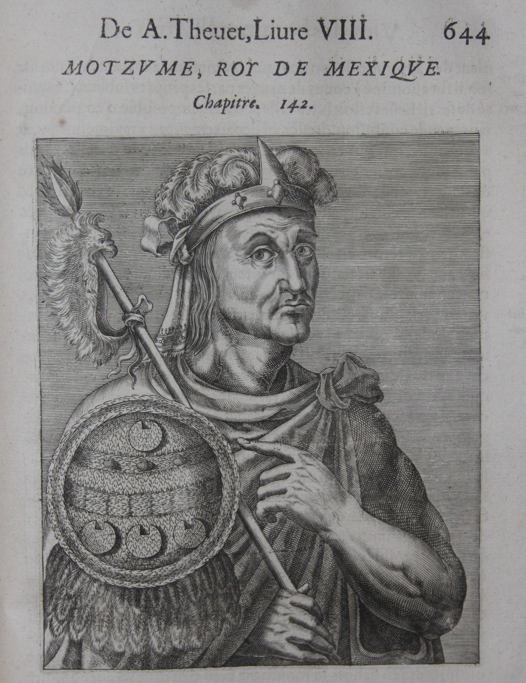 Moctezuma, Pourtraits et Vies des Hommes Illustres, André Thévet, Paris 1584